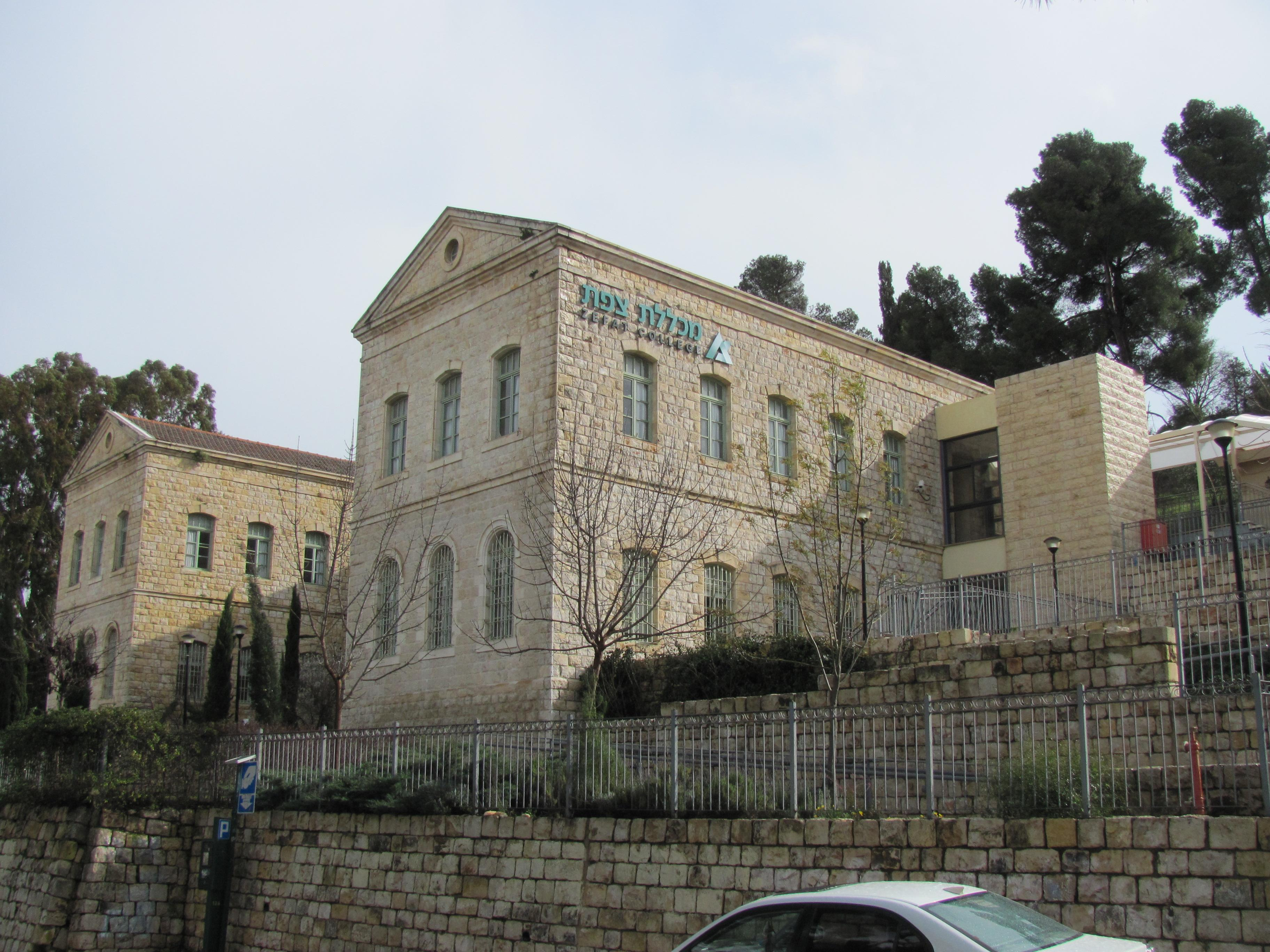 One of the Safed academic college buildings.